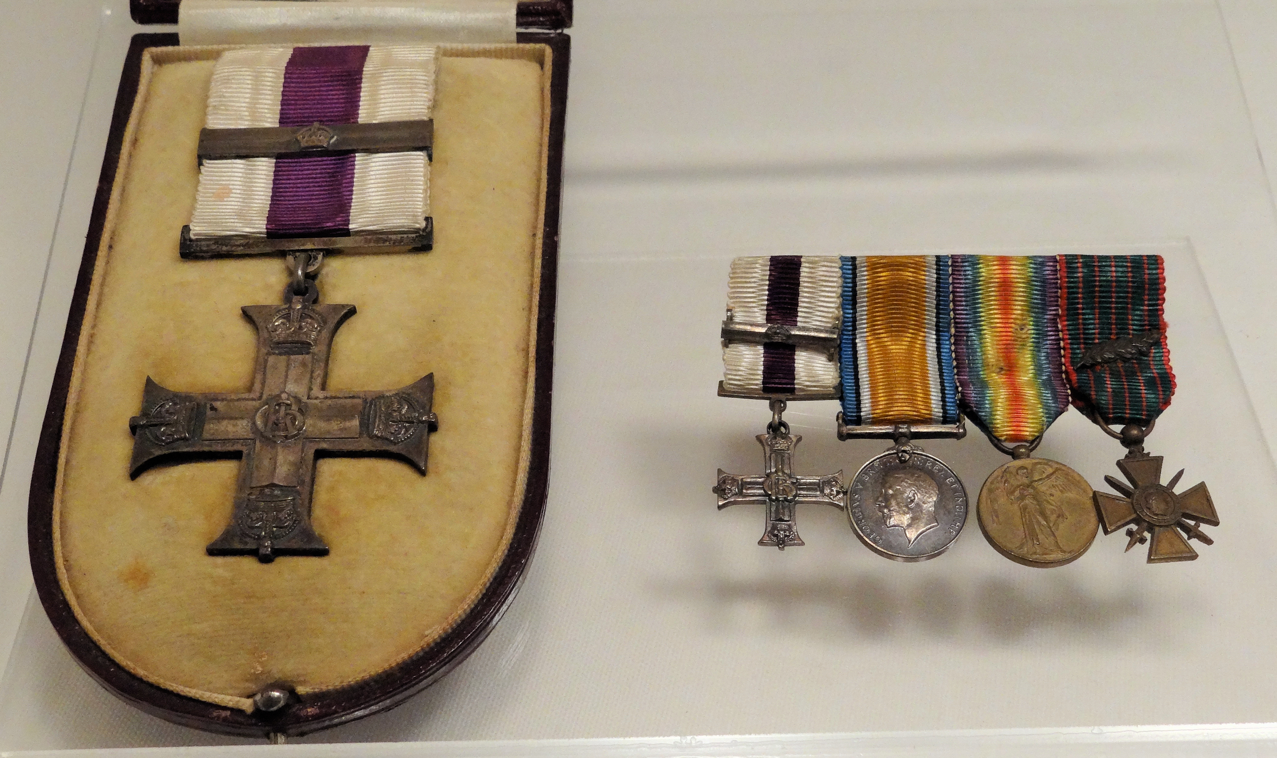 War Decorations awarded to the Irish Roman Catholic priest Francis Browne for his service in World War I. The decorations shown are, from left to right, the Military Cross and Bar, and miniatures of the Military Cross and Bar, the British War Medal, the Victory Medal (US) and finally the Croix de Guerre (France).